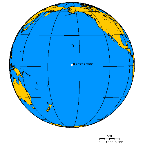 Orthographic projection over Kiritimati.